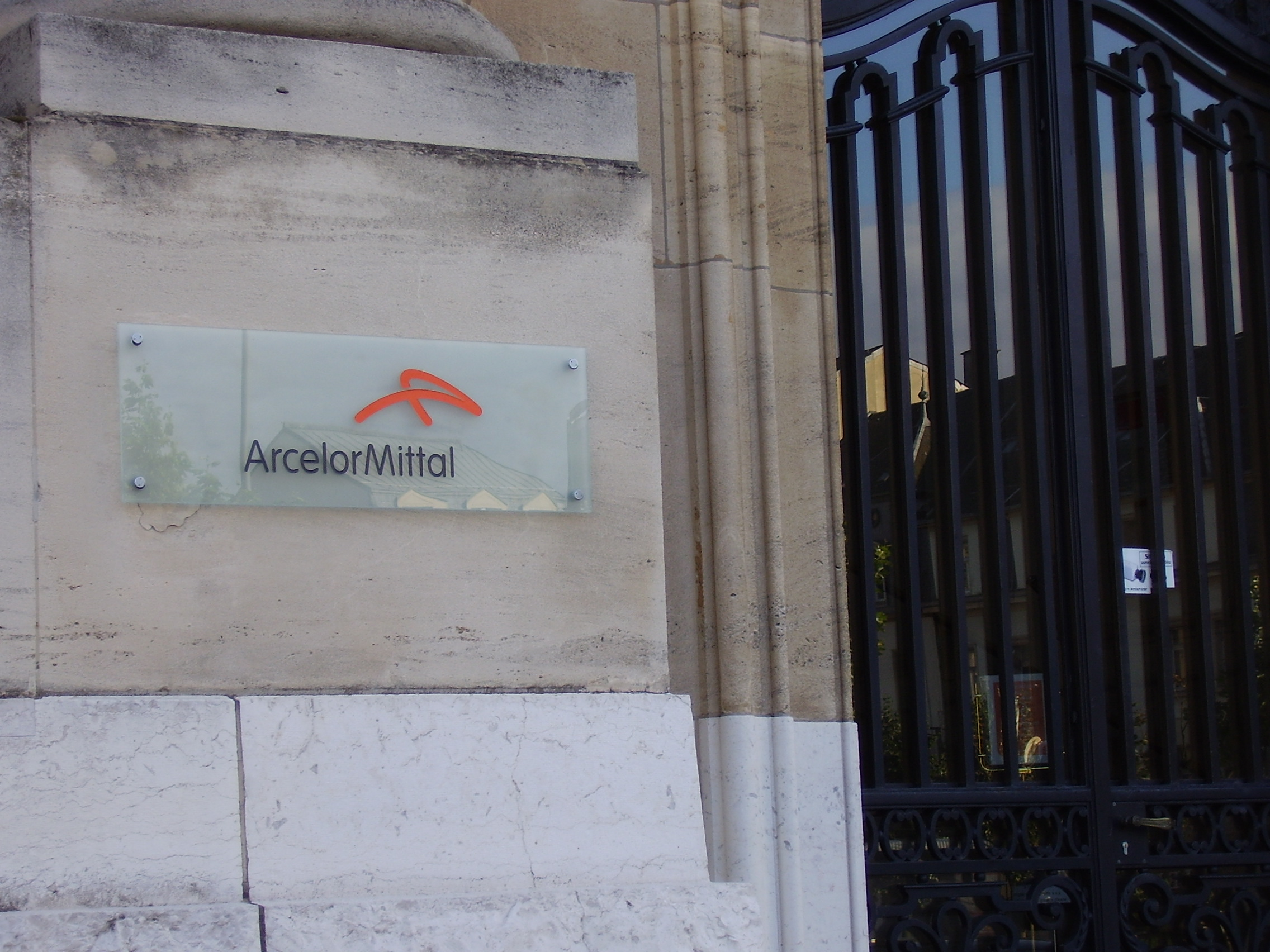 headquarder of ArcelorMittal in Luxemburg city